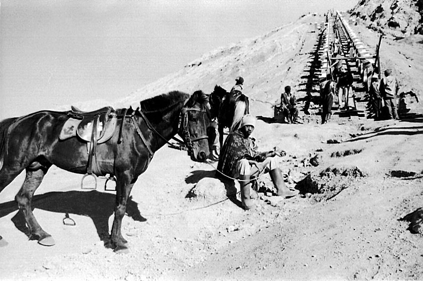 Horses with their handlers wait at the foot of the 450 step stairs. There is construction going on to reinforce the stairs and new handlebars. The strong chilly wind picks up the ash, that covers the whole landscape, easily and quicly turns it into a sand storm. TMY 400 FD 24mm f/2.8 Canon AE-1, Breed sumbawa Pony